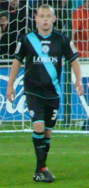 12/05/10 Cardiff City V Leicester City, Championship Playoff 2nd Leg, Cardiff City Stadium, Cardiff, Wales